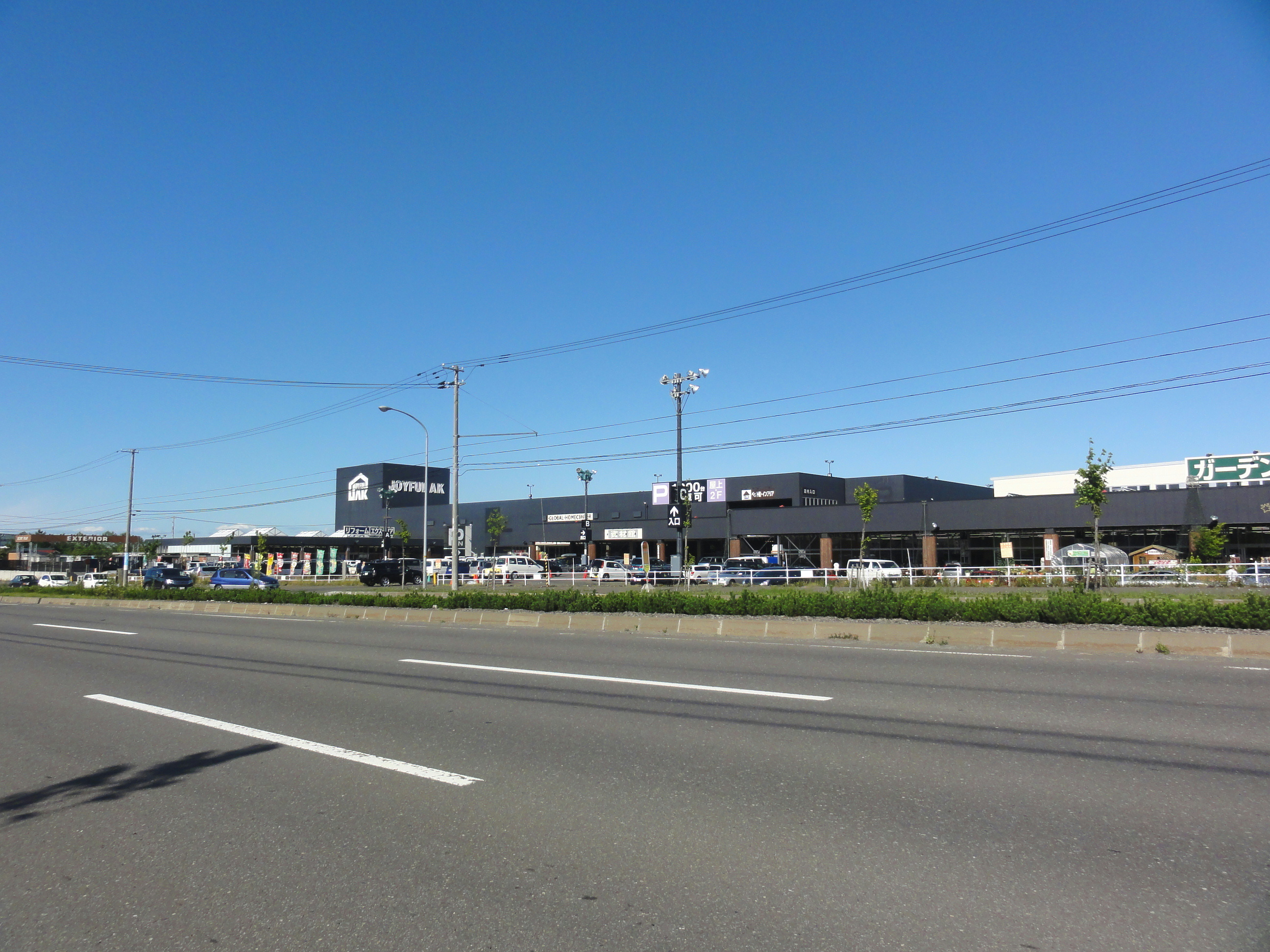 JOYFUL AK Ōmagari-ten (Kitahiroshima, Hokkaidō)